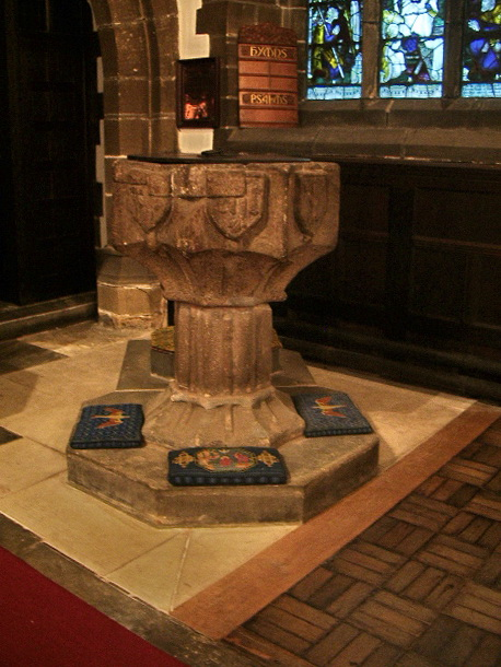 St Bartholomew's Parish Church, Colne, Font, near to Colne, Lancashire, Great Britain.